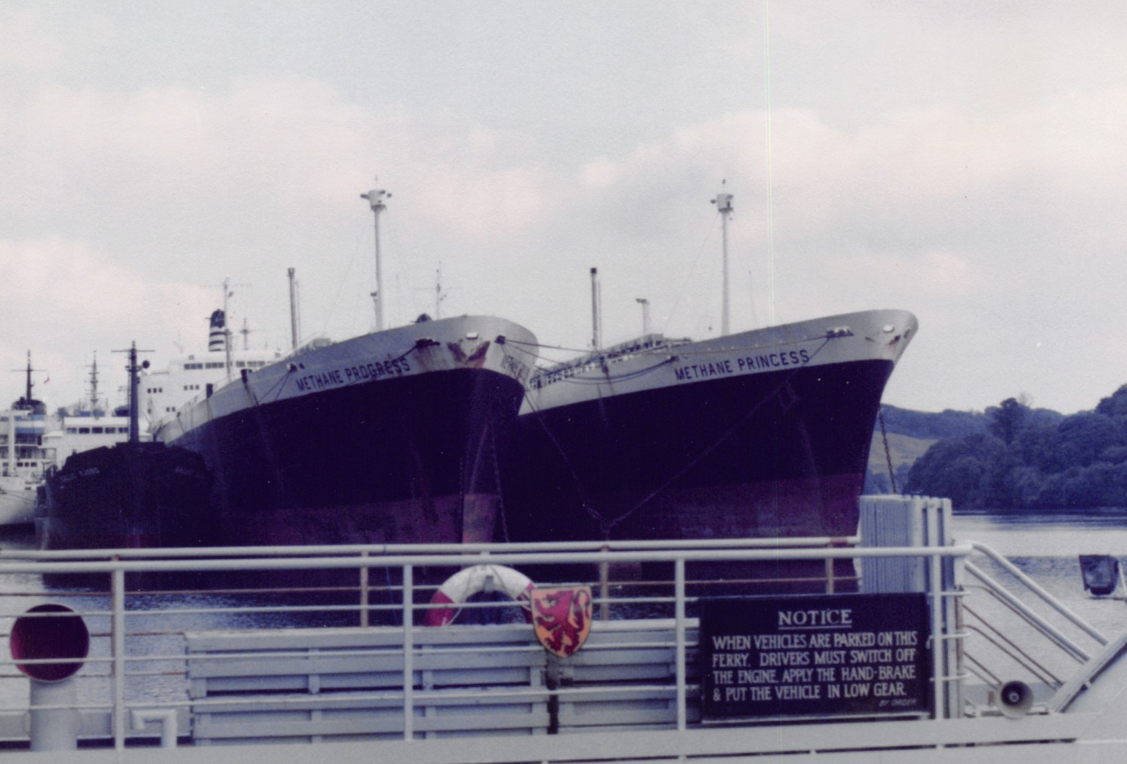 This is the Methane Princess and her sister ship Methane Progress. They carry liquefied gas.